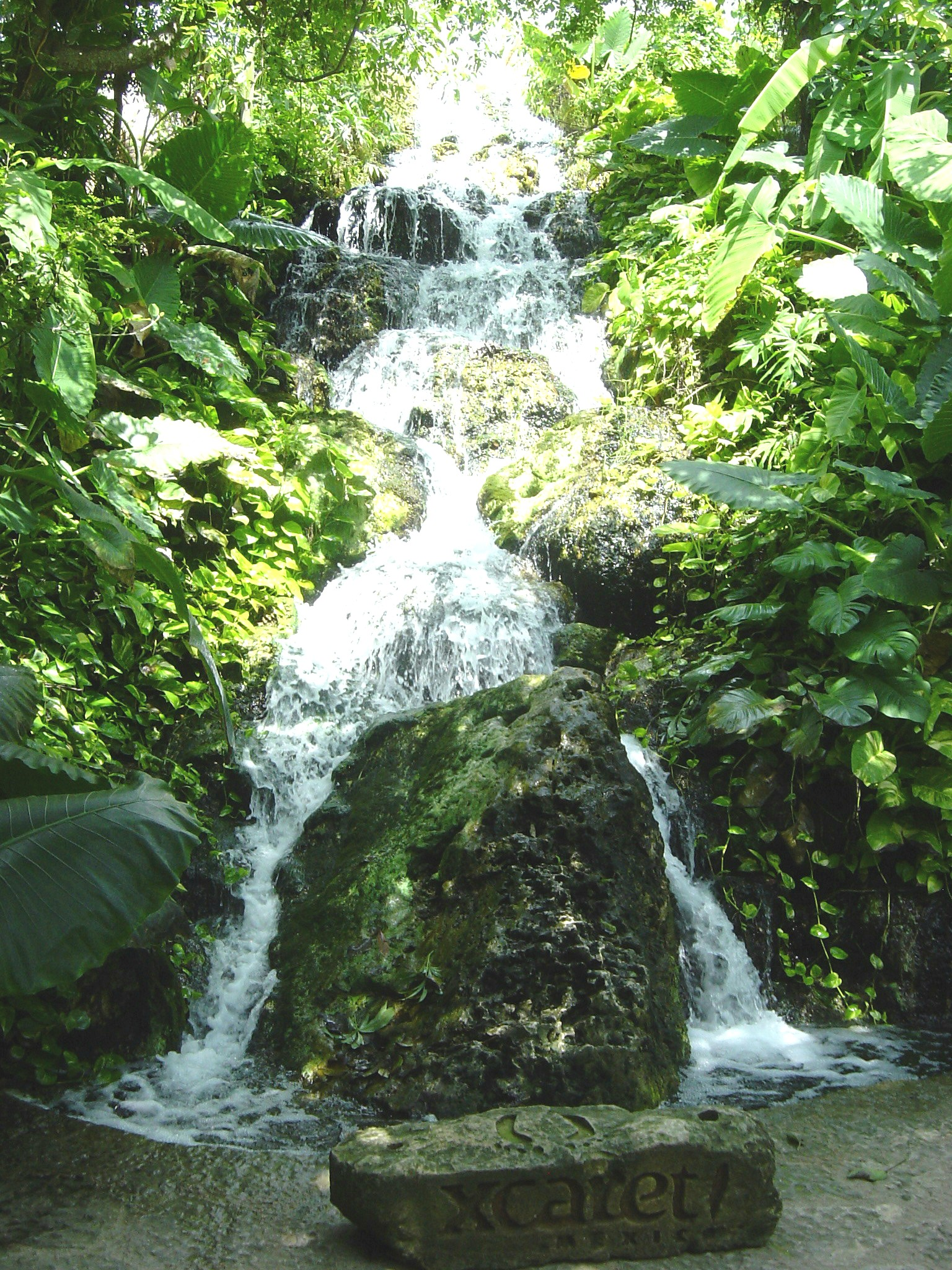 Waterfall at the entrance of the Xcaret butterfly garden